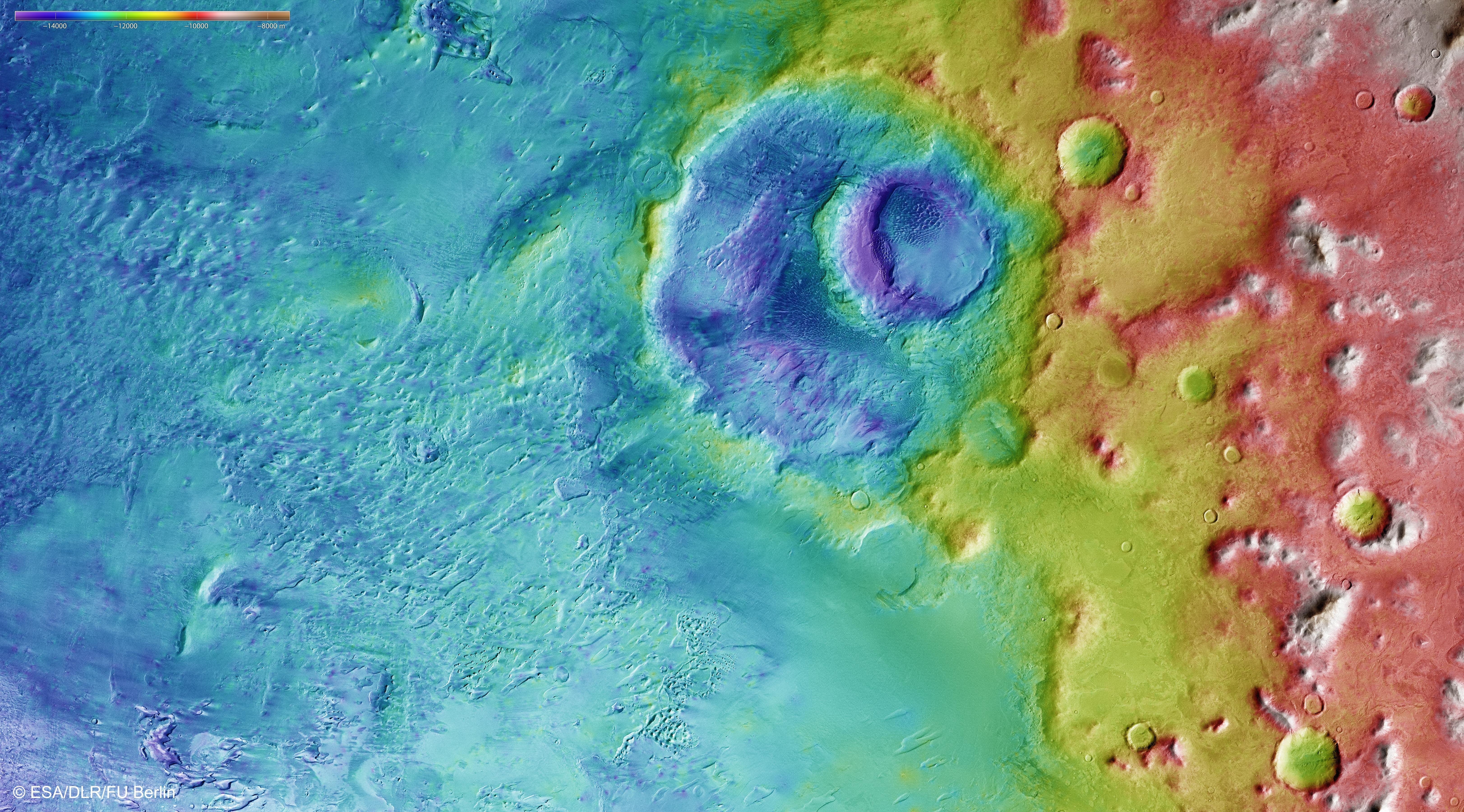 Colour-coded topography map of a region of the Argyre basin, featuring Hooke crater and part of the floor of the basin known as Argyre Planitia. White and red show the highest terrains, while blue and purple show the deepest. The image is based on a digital terrain model of the region, from which the topography of the landscape can be derived. The region clearly slopes to the south (left). The image was acquired by the High Resolution Stereo Camera on Mars Express on 20 April 2014 during orbit 13 082. The ground resolution is about 63 m per pixel. Hooke crater is located at about 46°S / 316°E. North is right and East is down. Credit: ESA/DLR/FU Berlin (G. Neukum), CC BY-SA 3.0 IGO Copyright Notice: This work is licenced under the Creative Commons Attribution-ShareAlike 3.0 IGO (CC BY-SA 3.0 IGO) licence. The user is allowed to reproduce, distribute, adapt, translate and publicly perform this publication, without explicit permission, provided that the content is accompanied by an acknowledgement that the source is credited as 'ESA/DLR/FU Berlin’, a direct link to the licence text is provided and that it is clearly indicated if changes were made to the original content. Adaptation/translation/derivatives must be distributed under the same licence terms as this publication. To view a copy of this license, please visit